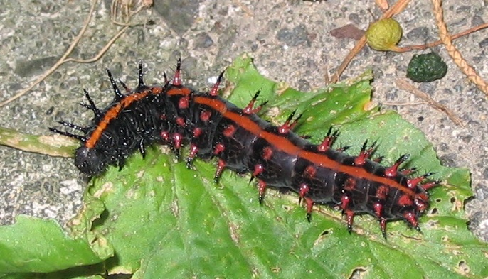 Argyreus hyperbius, or Indian Fritillary (larva). Photo taken in Tokyo, Japan.